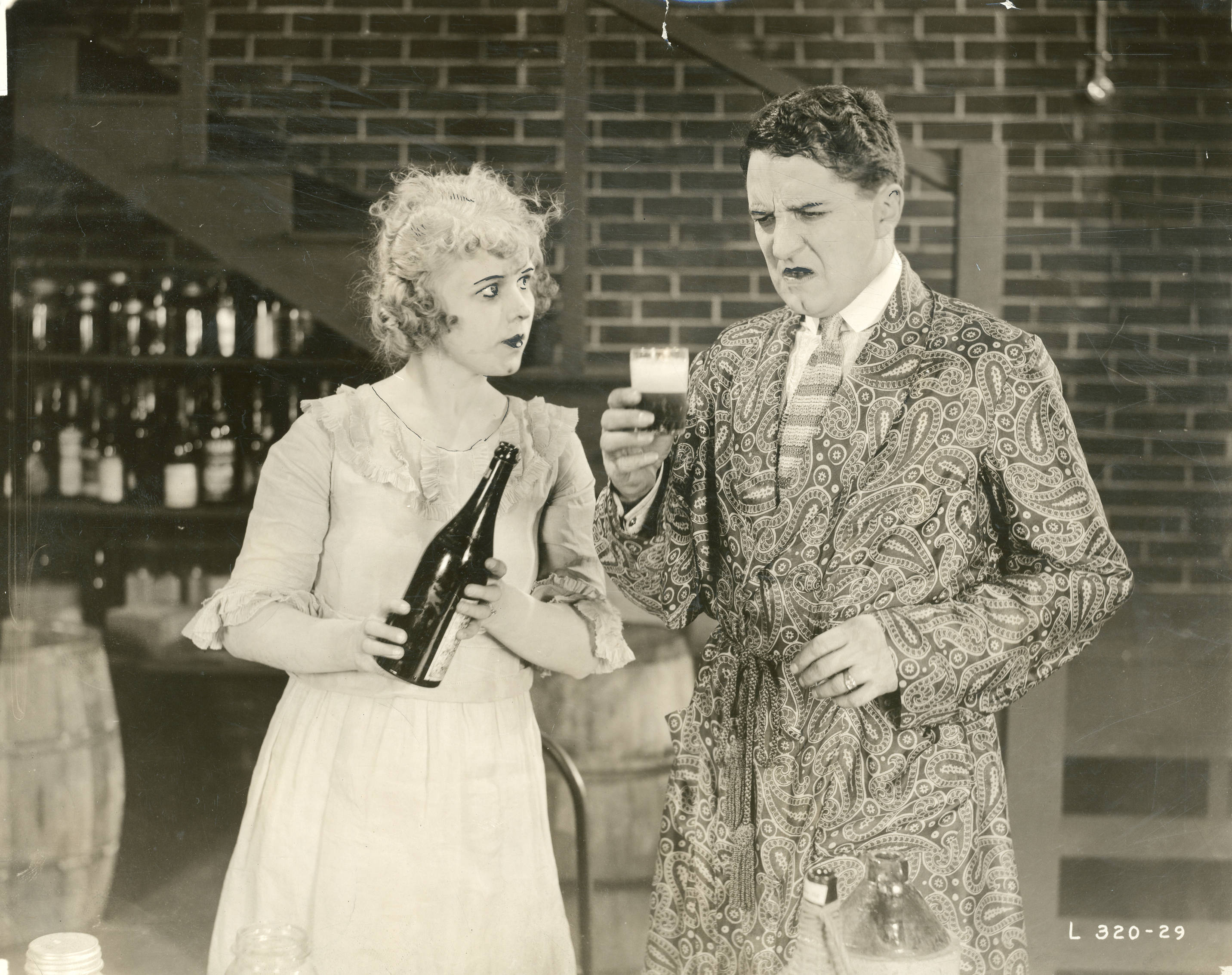 A scene from the Americancomedy film The Six Best Cellars (1920), which played at the Strand Theater, Seattle. Includes Bryant Washburn and Wanda Hawley. Date stamped Mar. 5, 1920. Subjects: motion pictures, actors, actresses